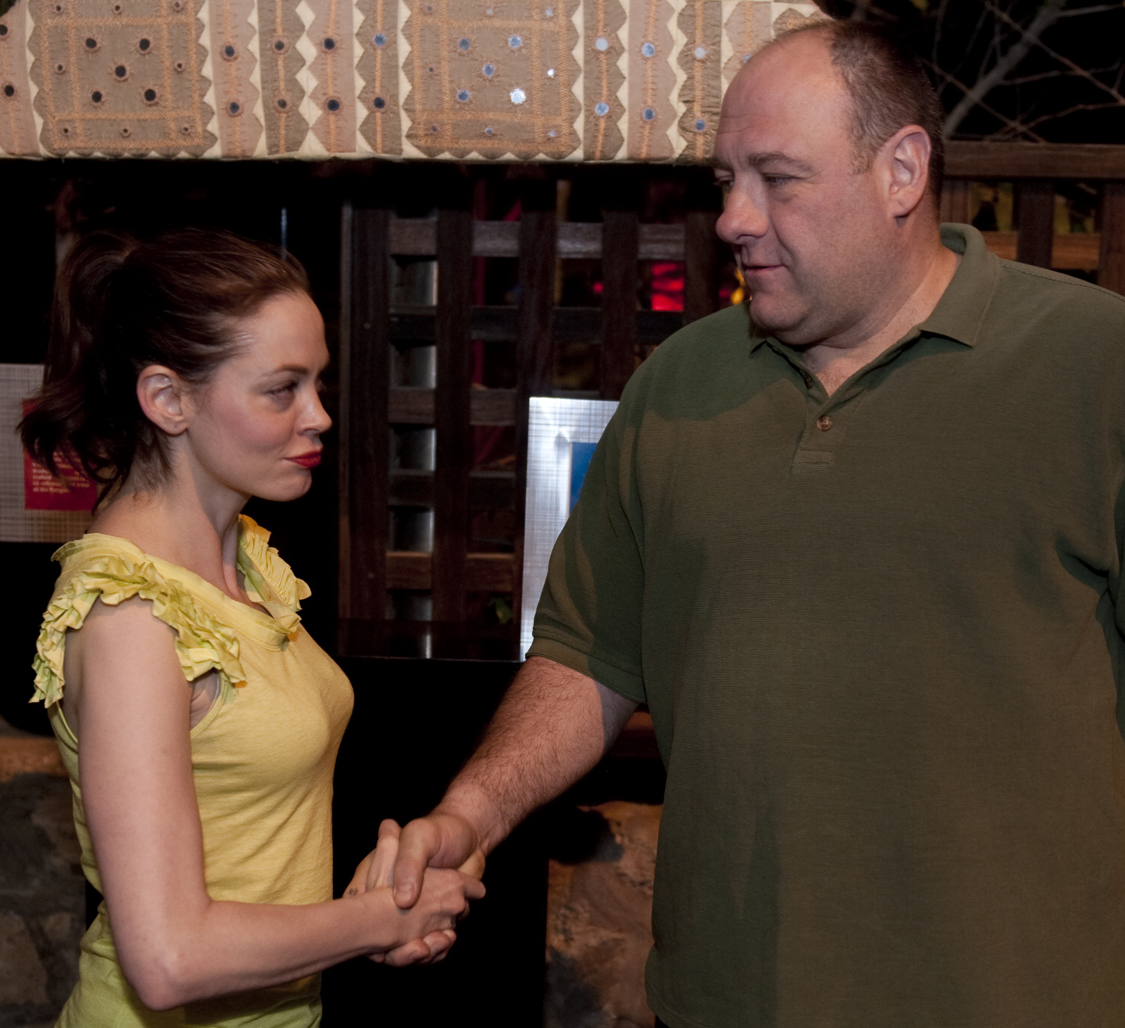 100331-N-0696M-280 Adm. Mike Mullen, chairman of the Joint Chiefs of Staff is greeted by Deborah K. Jones, U.S. Ambassador to Kuwait and Chief of the Kuwaiti Army Lt. Gen. Sheikh Ahmad Al-Khaled in Kuwait City on March 31, 2010. Mullen is accompanying a USO tour in the region with celebrities James Gandolfini and Tony Sirico from HBO's "The Sapranos", New Orleans Saint Jon Stinchcomb and actress Rose McGowan. (DoD photo by Mass Communication Specialist Chad J. McNeeley/Released)